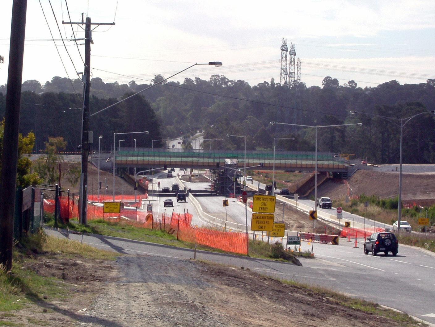 Taken by myself. Can be used for any reason for any purpose.